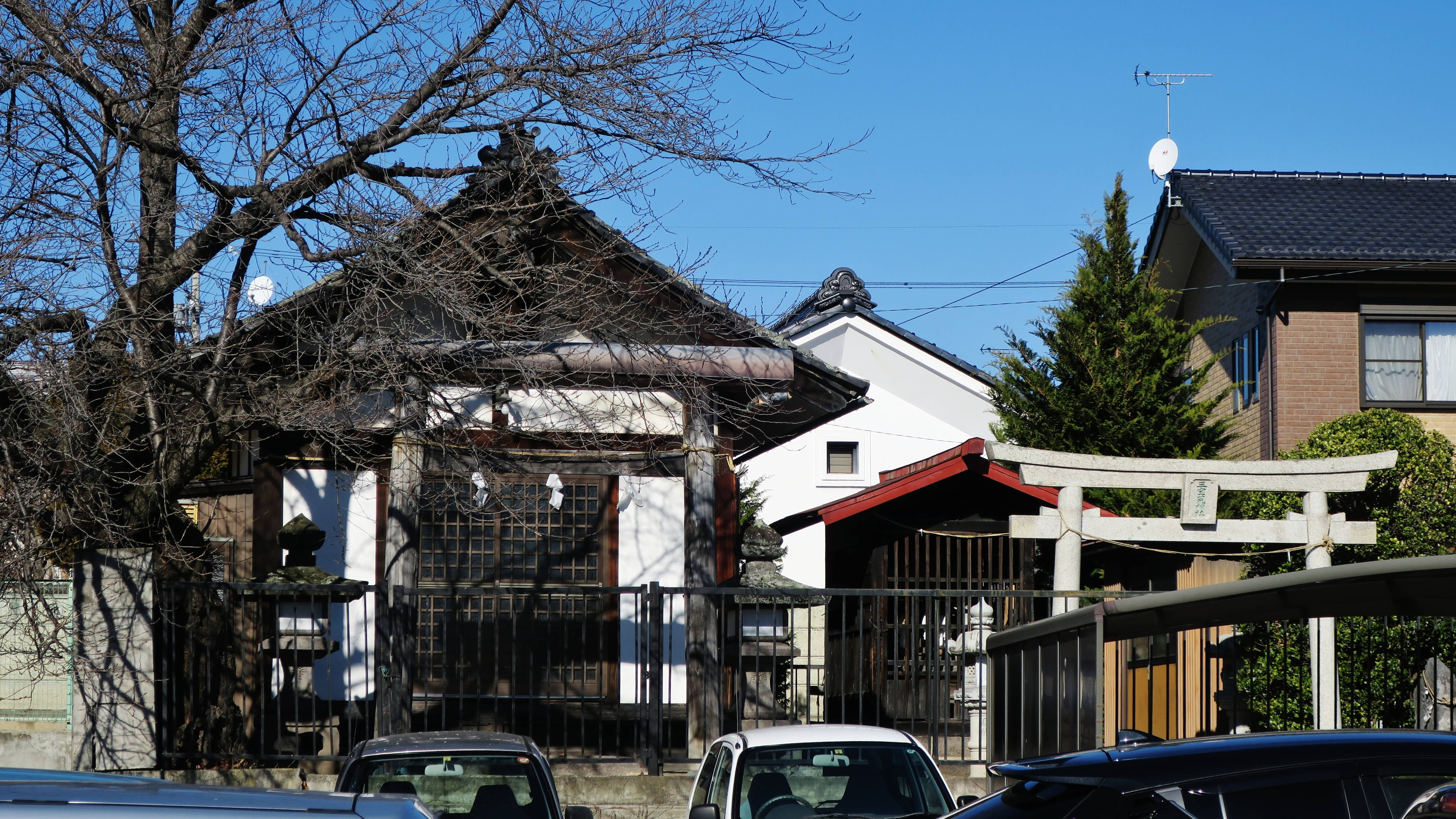 Shinmei-jinja (left) and Sanpōkōjinja (right) (Saku, Nagano).